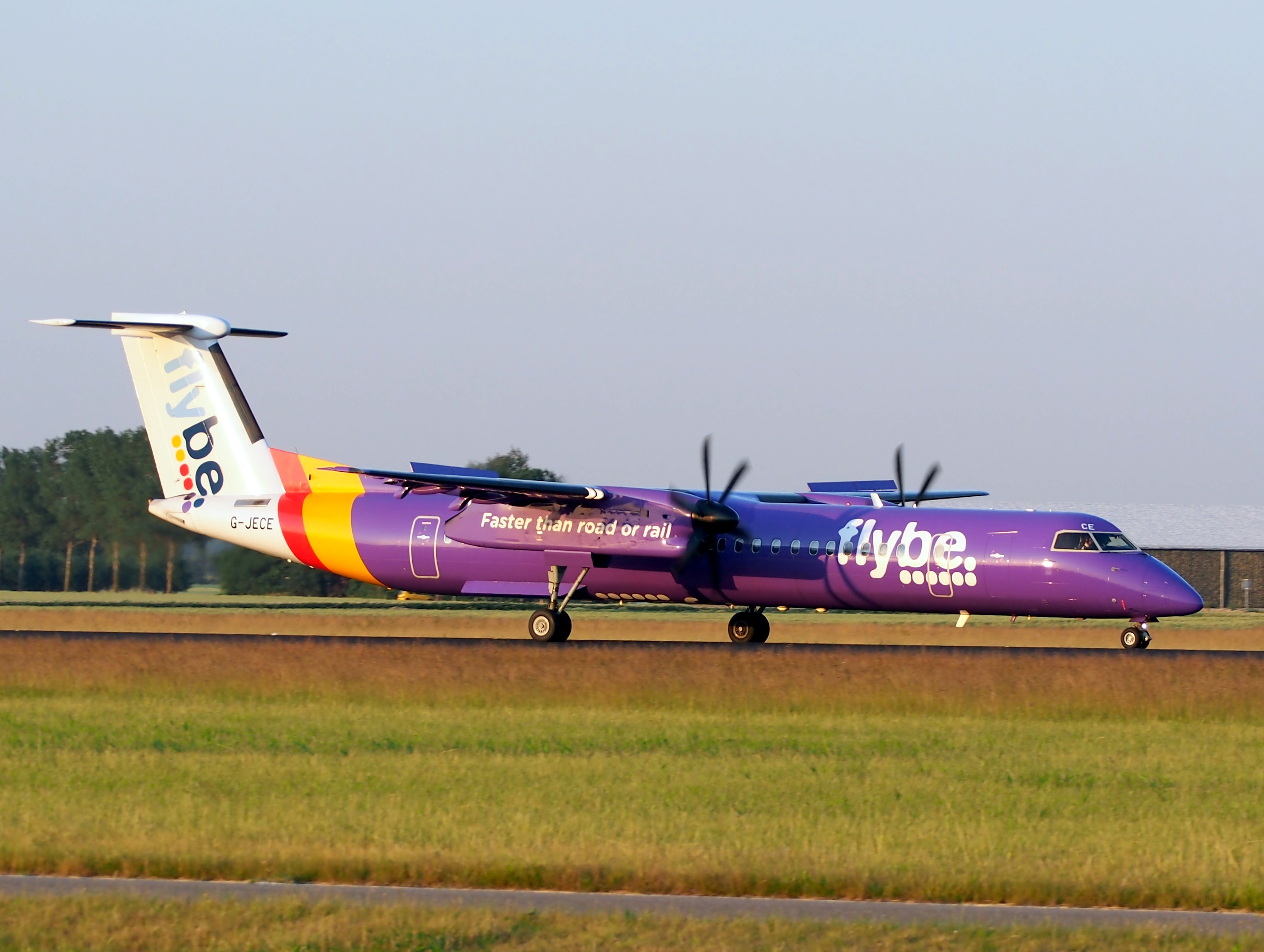 Bombardier Dash 8-Q402, Flybe landing at Schiphol (AMS - EHAM), The Netherlands.